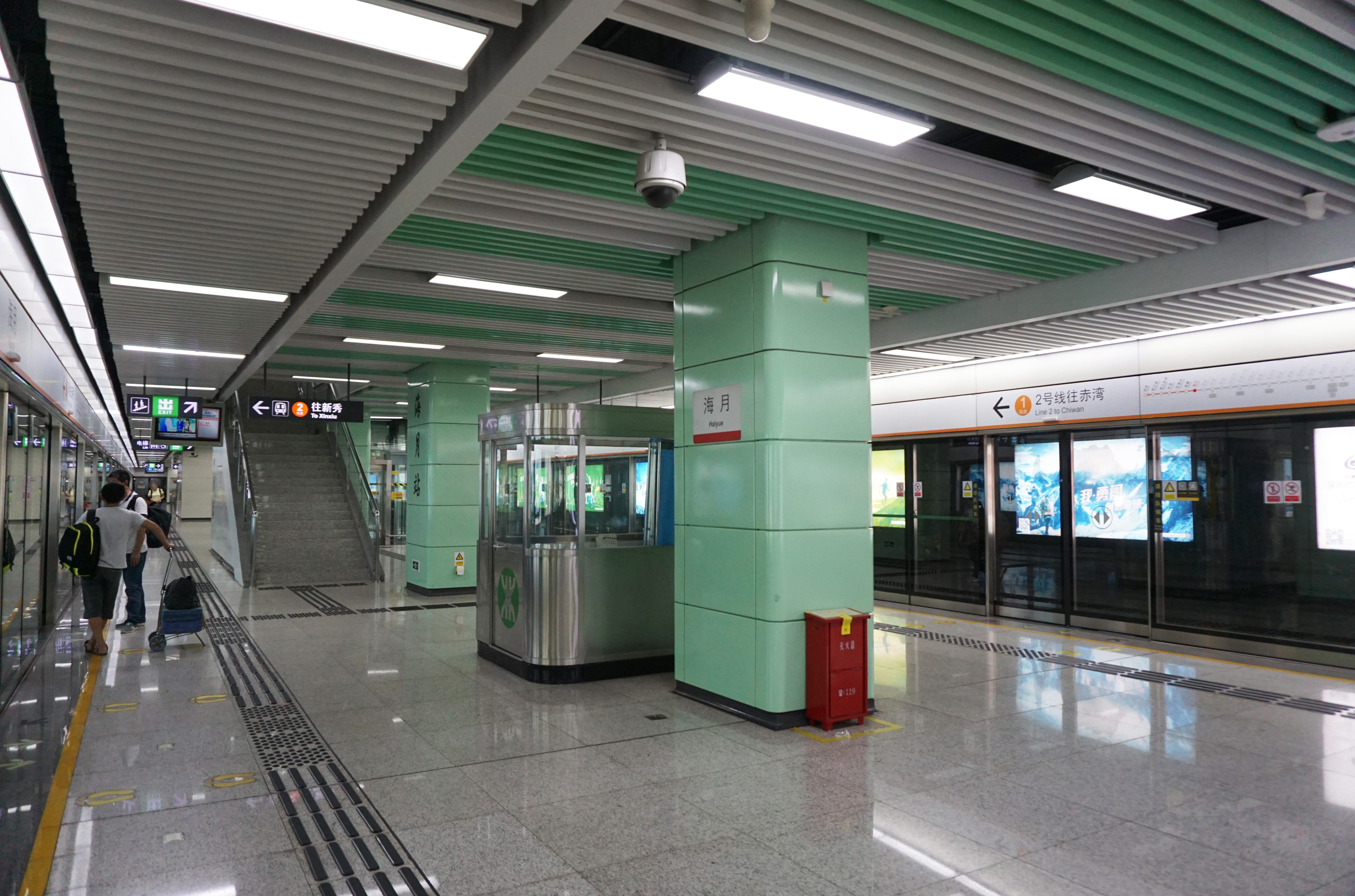 Haiyue Station in Nanshan District, Shenzhen.